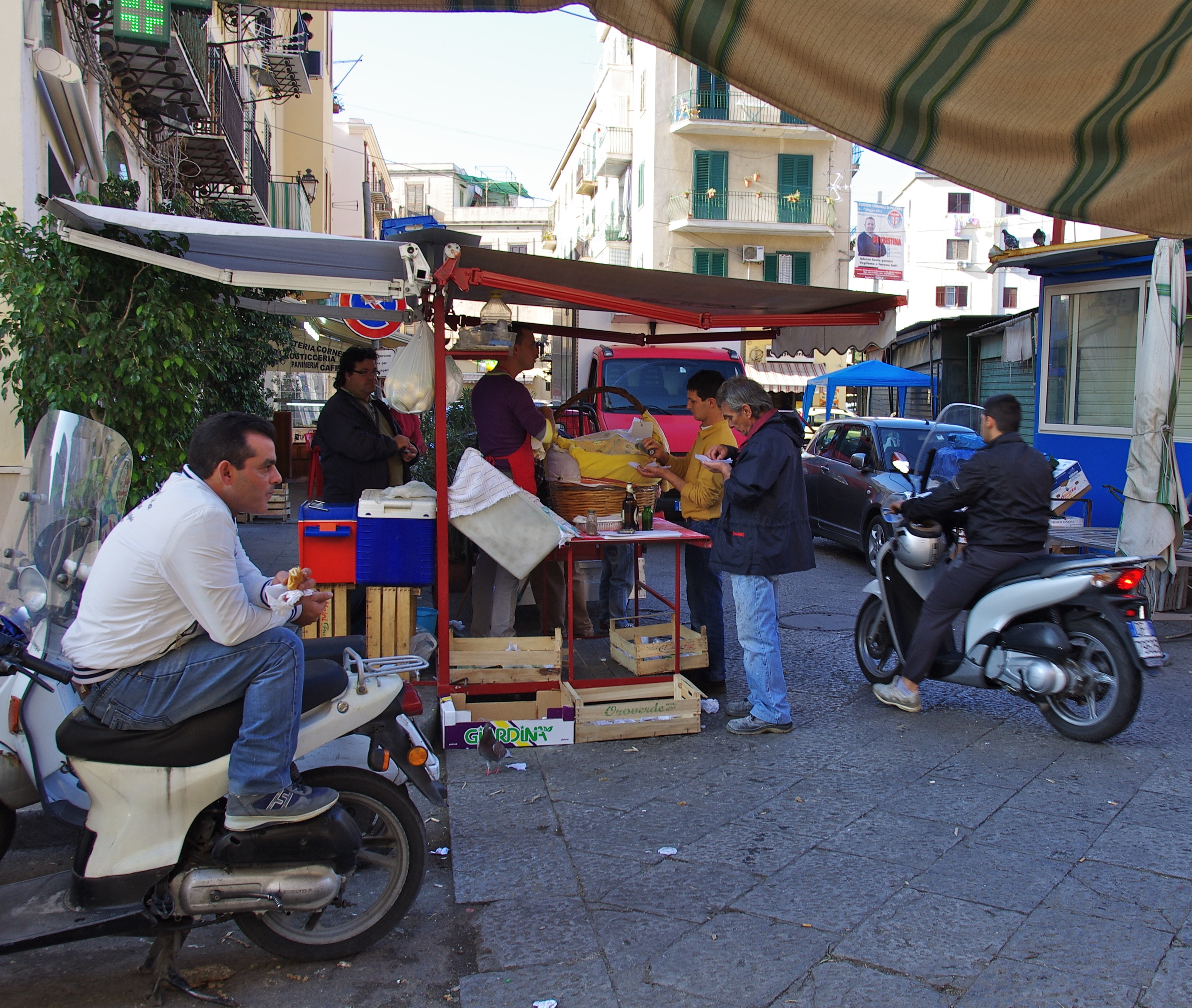 Frittula served in Palermo’s Ballarò Market